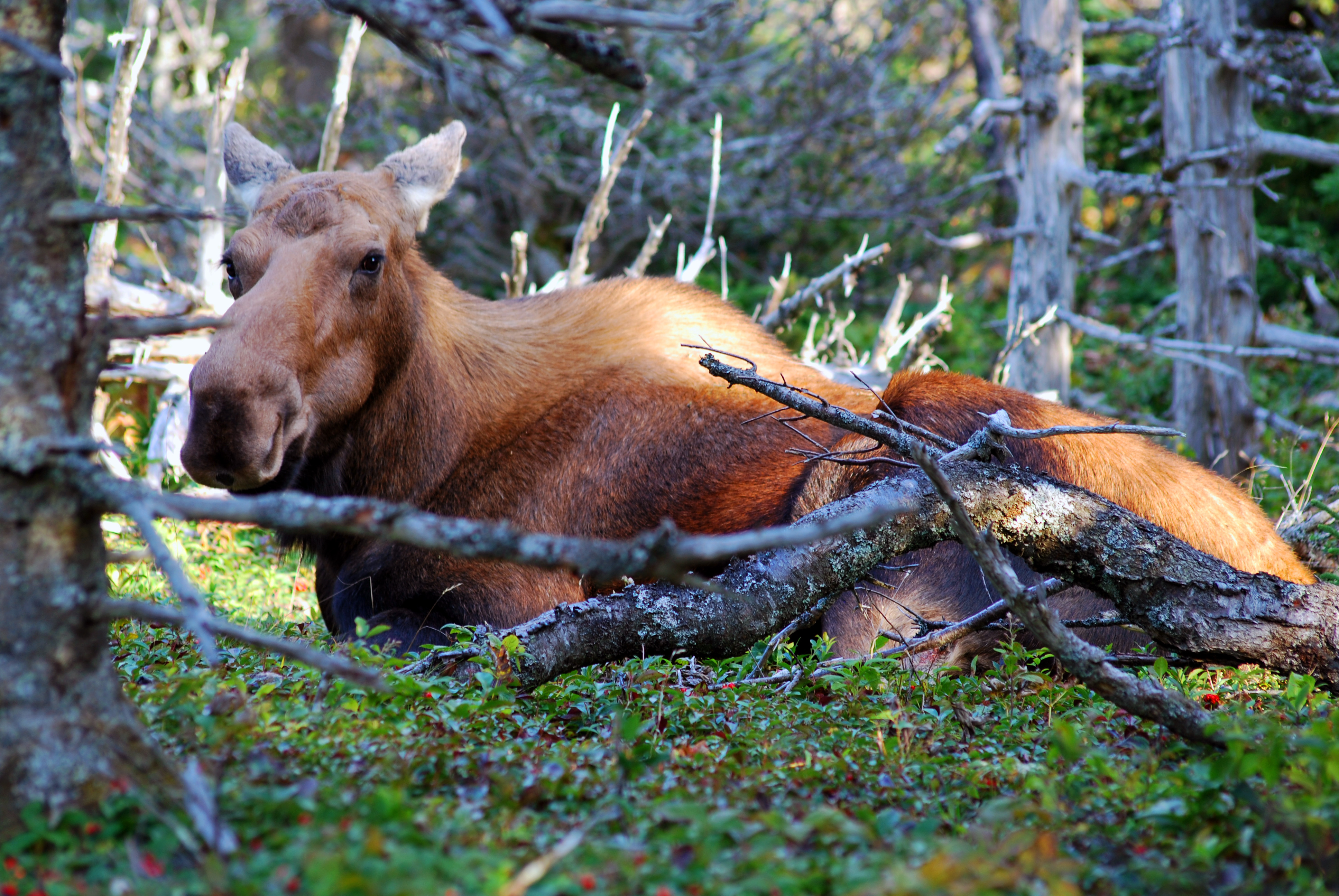 Cape Breton Highlands National Park moose, Nova Scotia Canada 2009